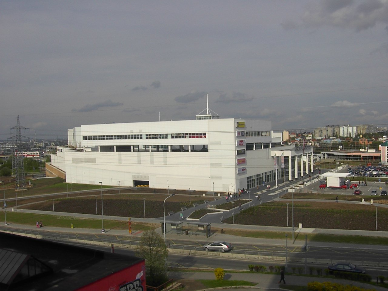 Shop centre Chodov in Prague, Czech Republic